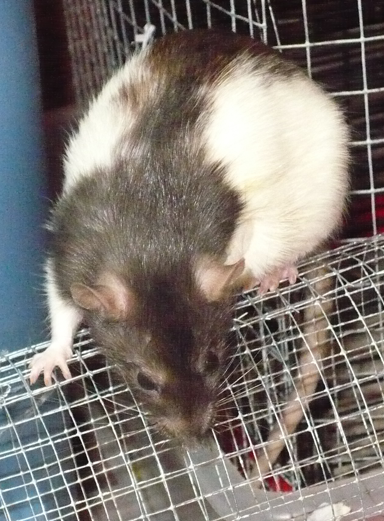 Hooded rat. Her name is Ynez.